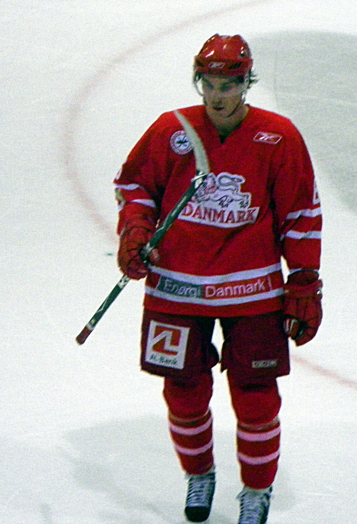 Stefan Lassen, danish ice hockey player with team Denmark. Friendly against team France